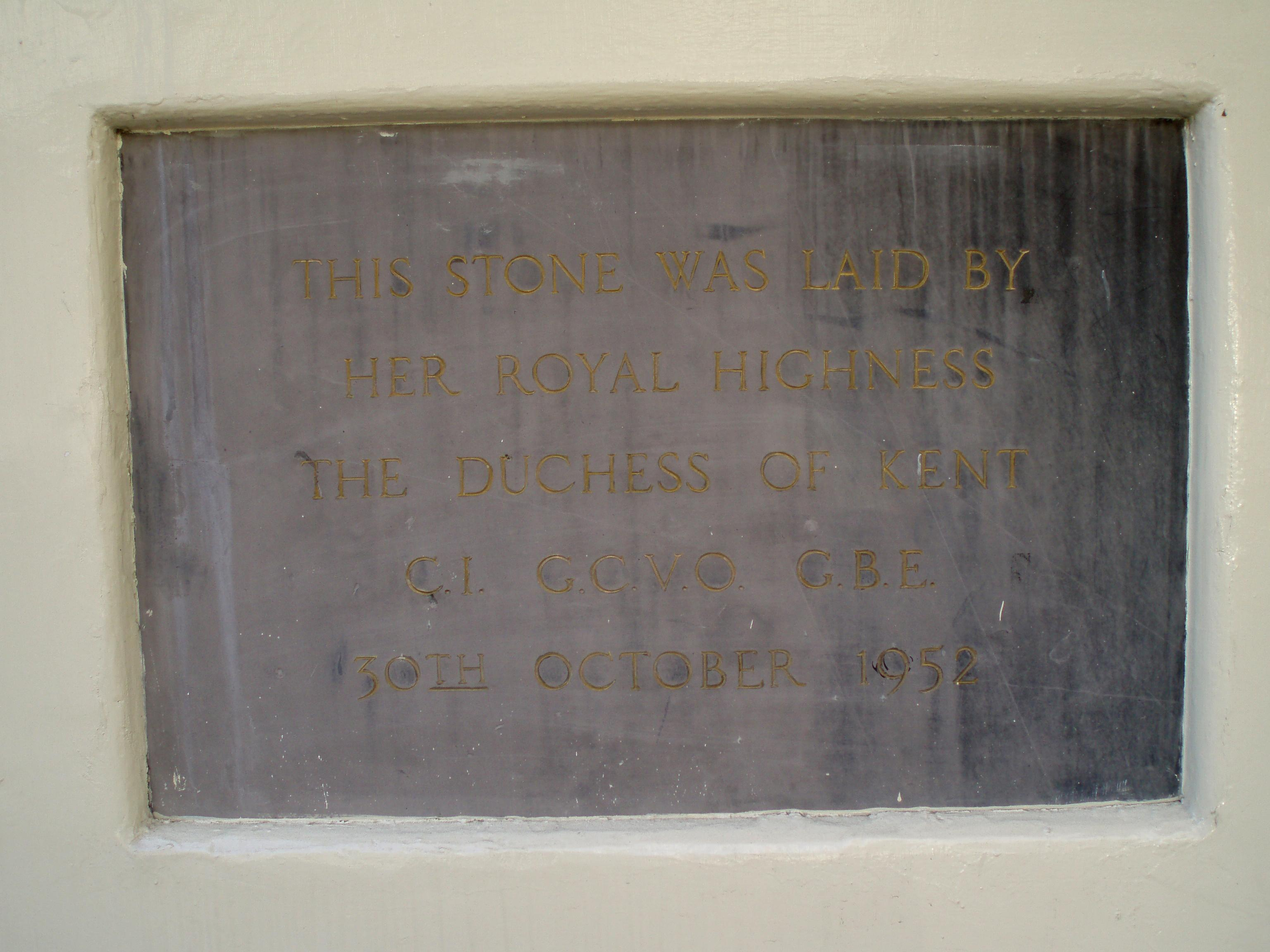 The stone was laid by HRH The Duchess of Kent in 30th October, 1952 in Hong Kong